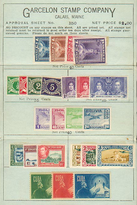 Postage stamp approval sheet of Garcelon stamp company with selection of postage stamps of Bolivia, Cuba, Guatemala, Ireland (postage dues), Paraguay, St. Vincent and the Solomon Islands, late 1940s